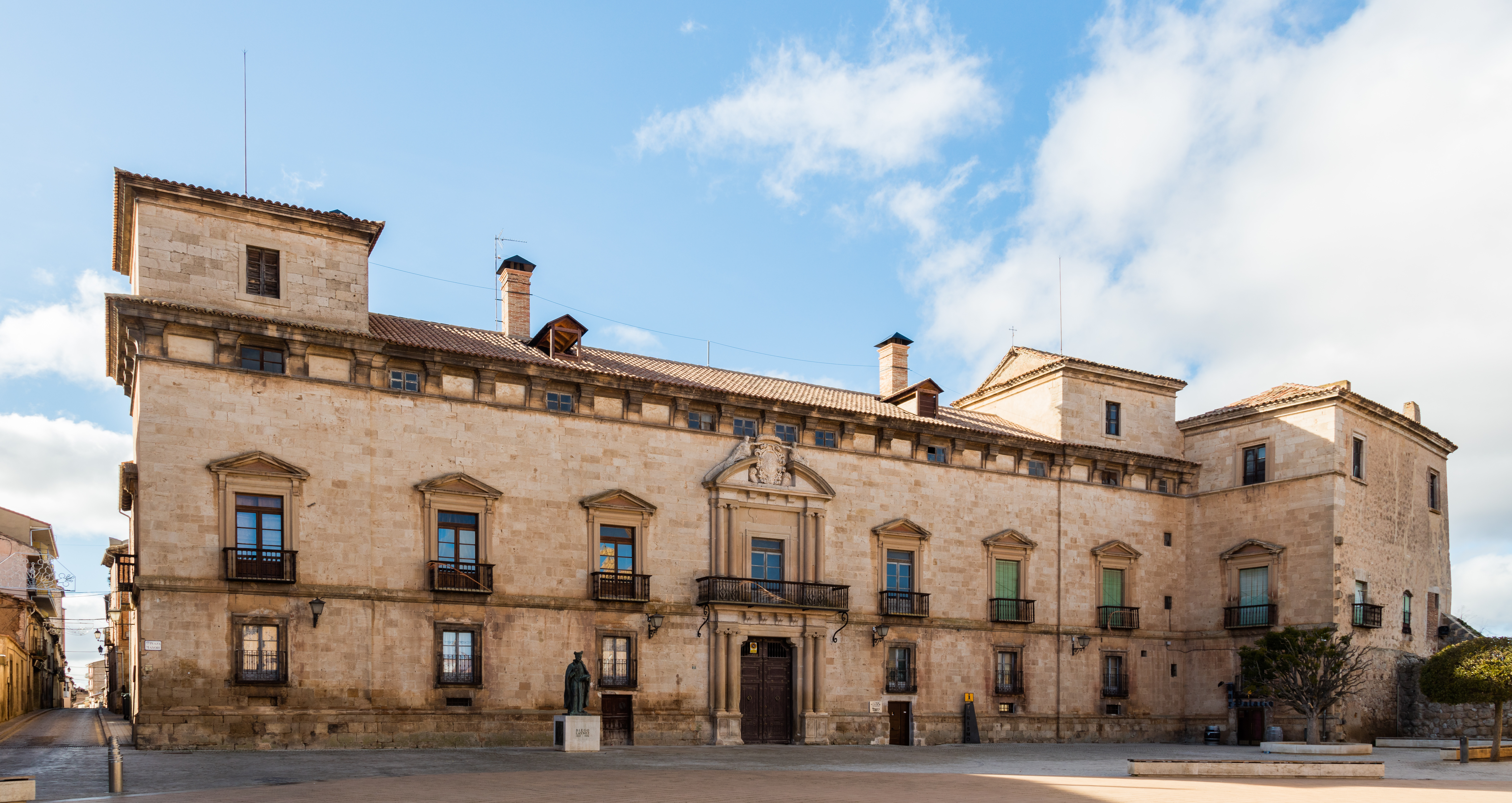 Palace of Altamira, Almazán, Soria, Spain